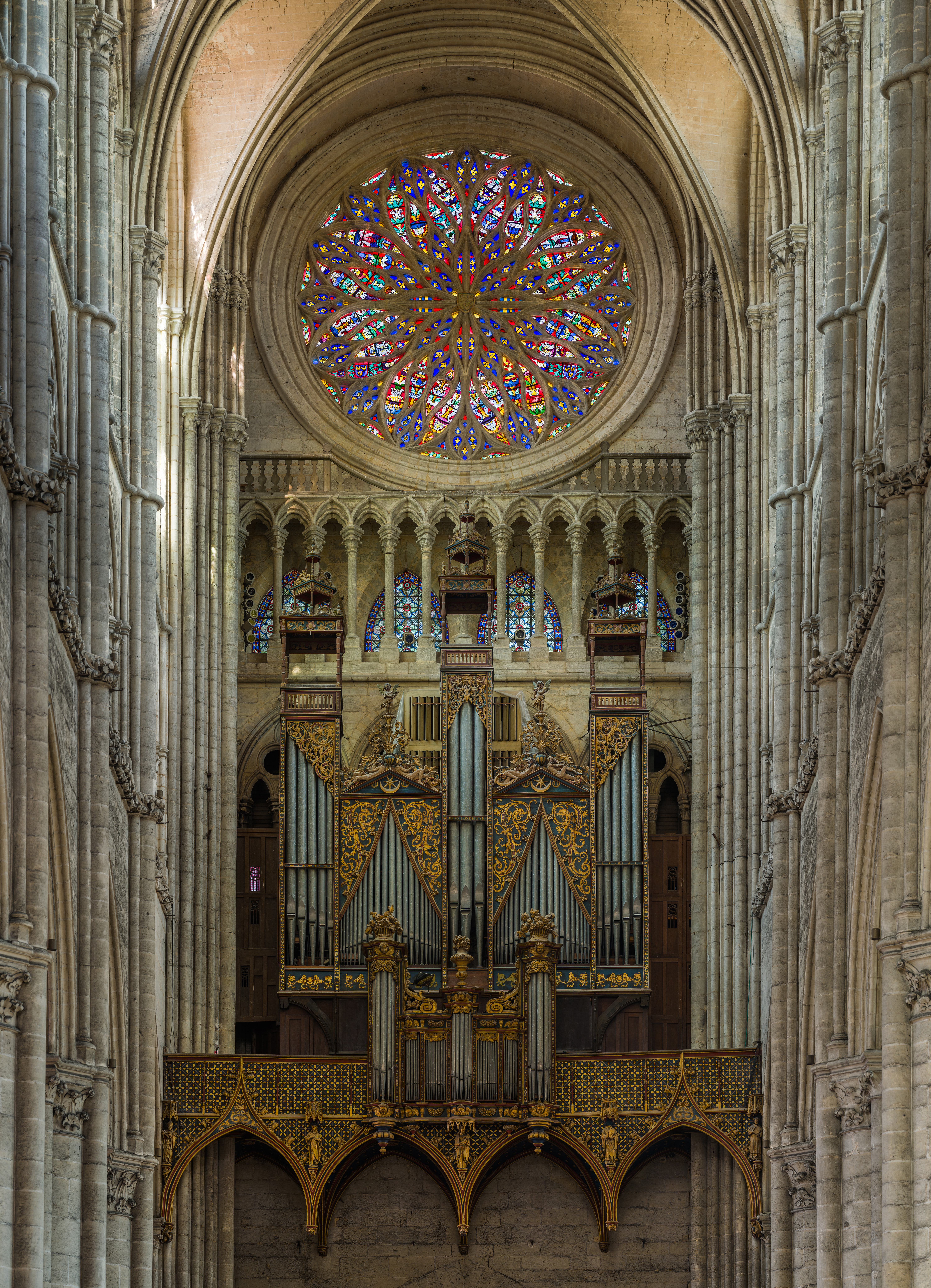 The organ and rose window of Amiens Cathedral, Picardy, France.